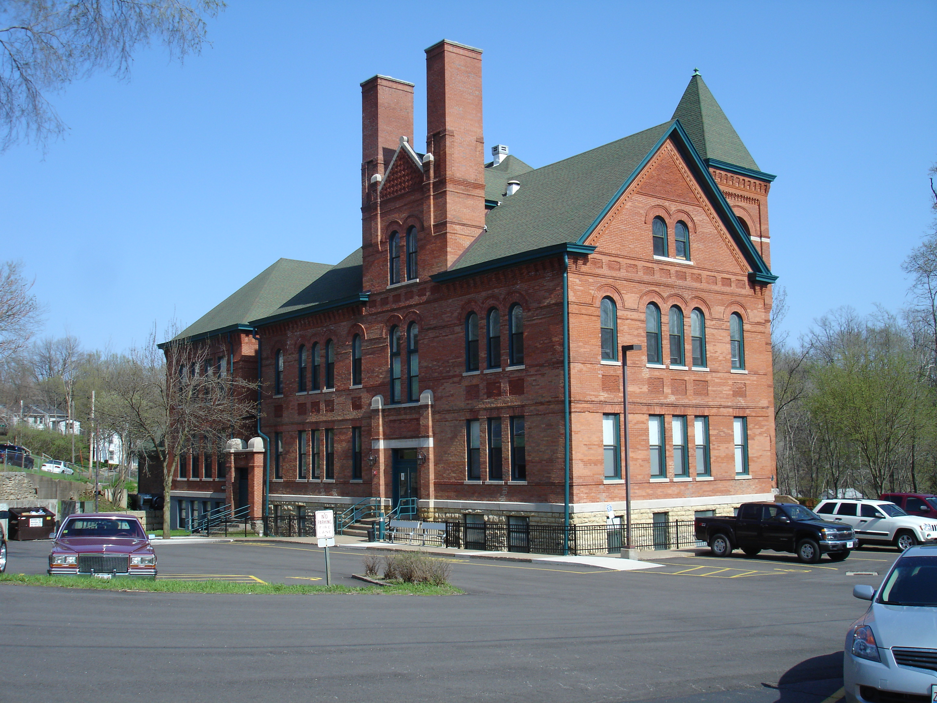 East Dubuque School (now retirement living), East Dubuque, Illinois, USA. U.S. National Register of Historic Places